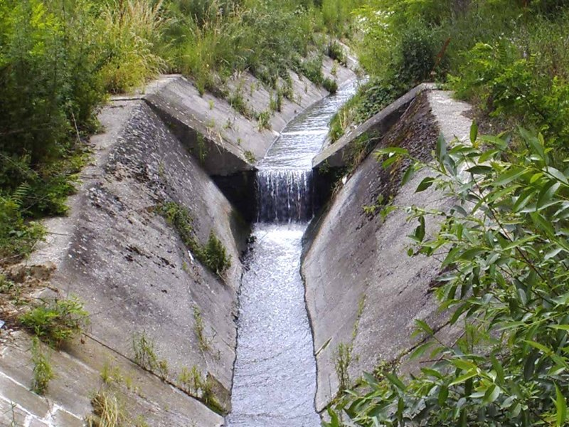 Mirijevski potok (Mirijevo Creek) in eastern neighbourhood of Belgrade, Serbia. Srpskohrvatski / српскохрватски: Mirijevski potok u blizini ugla Mirijevskog bulevara i Drage Ljočić u Beogradu